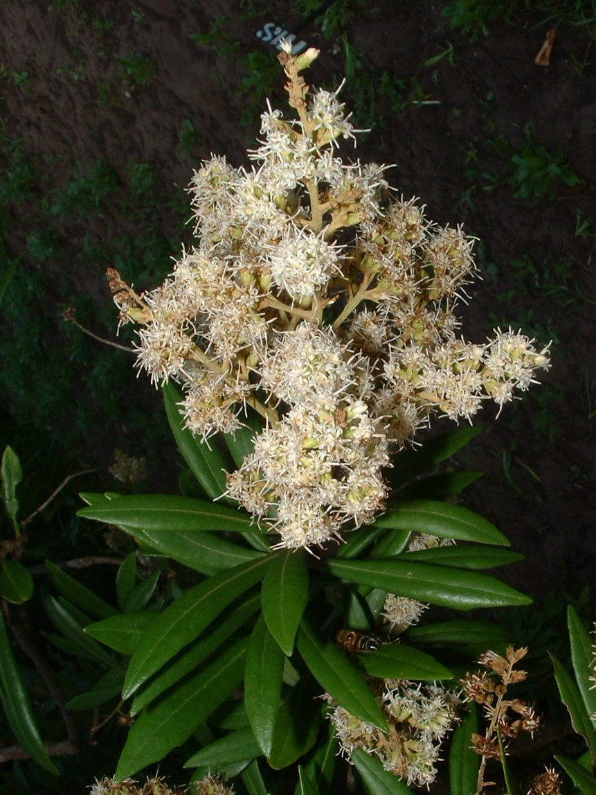 Brachylaena neriifolia. The Cape Silver Oak. Cape Town Tree.